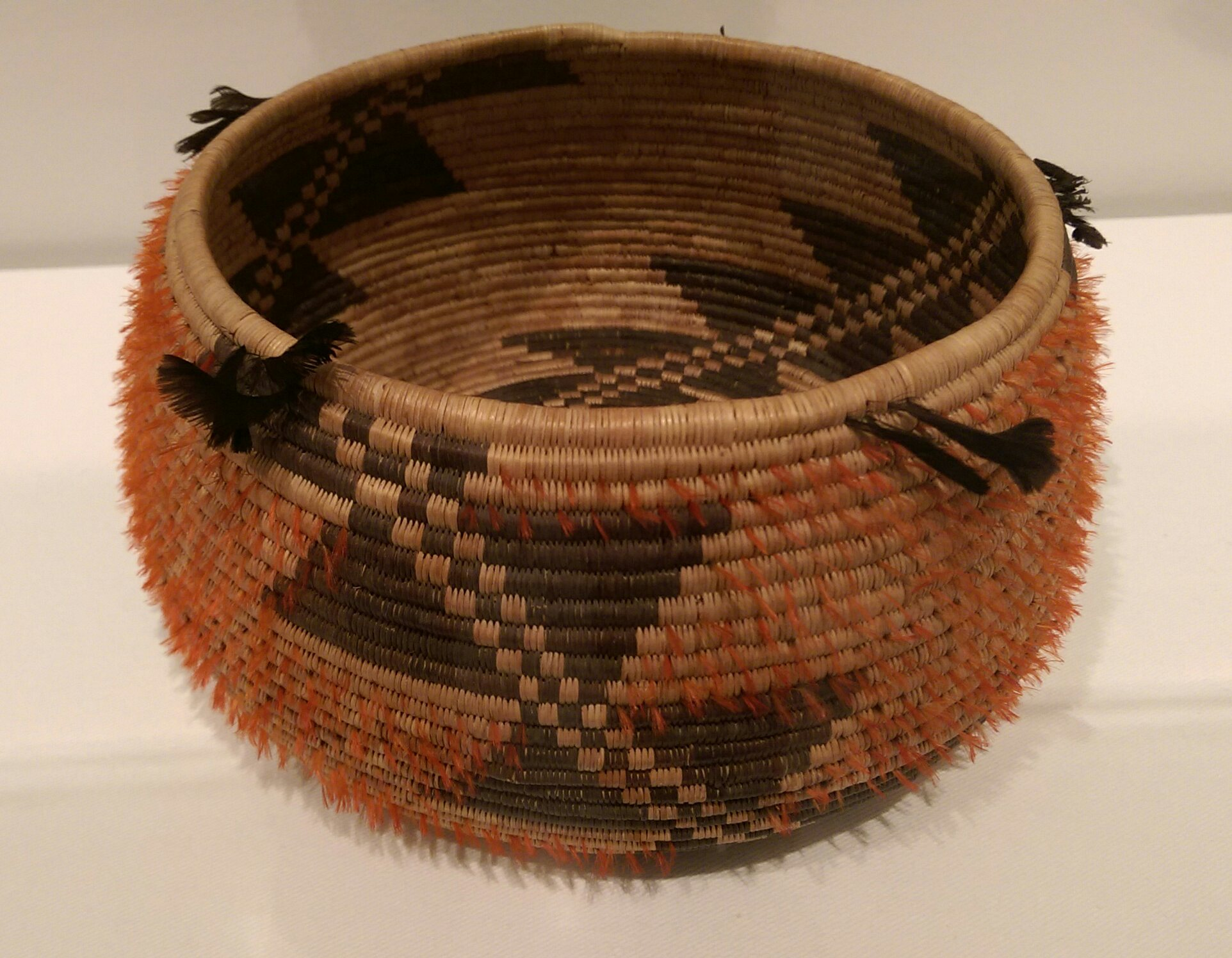 Basket on display at the Berkeley Art Museum Pacific Film Archive. Photo by Jim Heaphy.